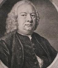 Image of Jacob Gilles (ca. 1691 – 1765), Grand Pensionary of Holland from 1746 to 1749.